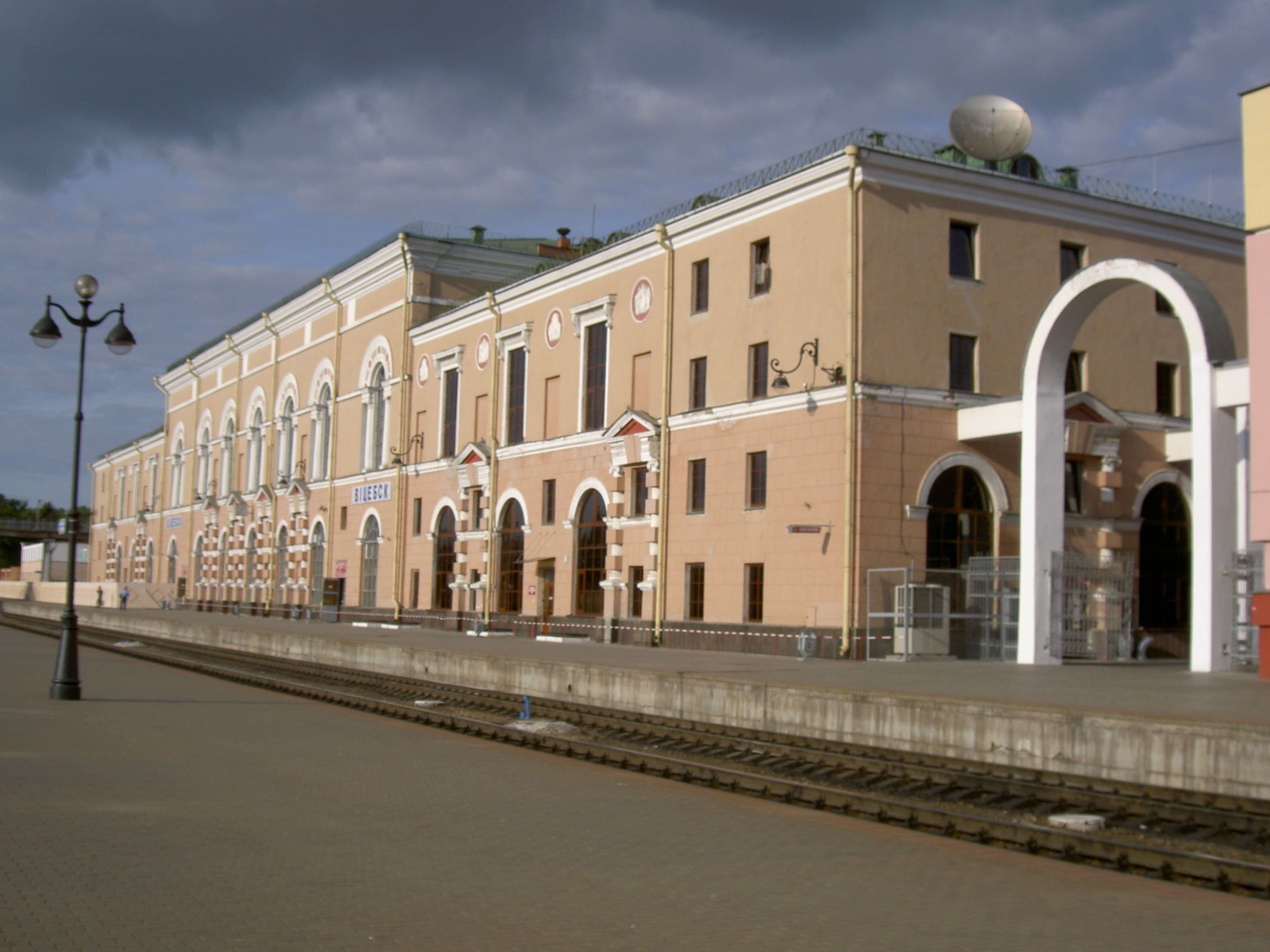 Vitebsk railway station